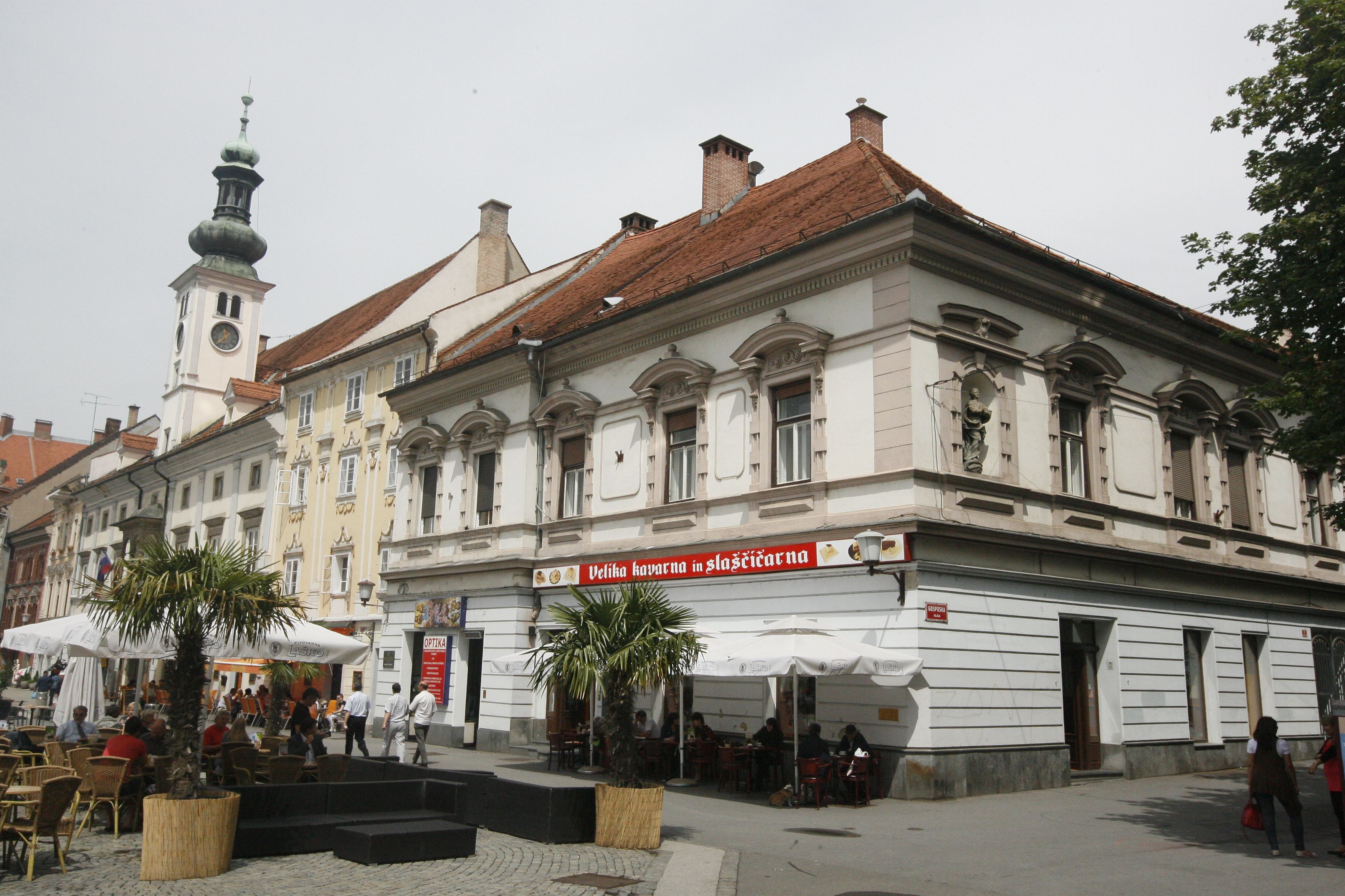 Alma Mater Europaea, European Centre Maribor, building, Slovenia